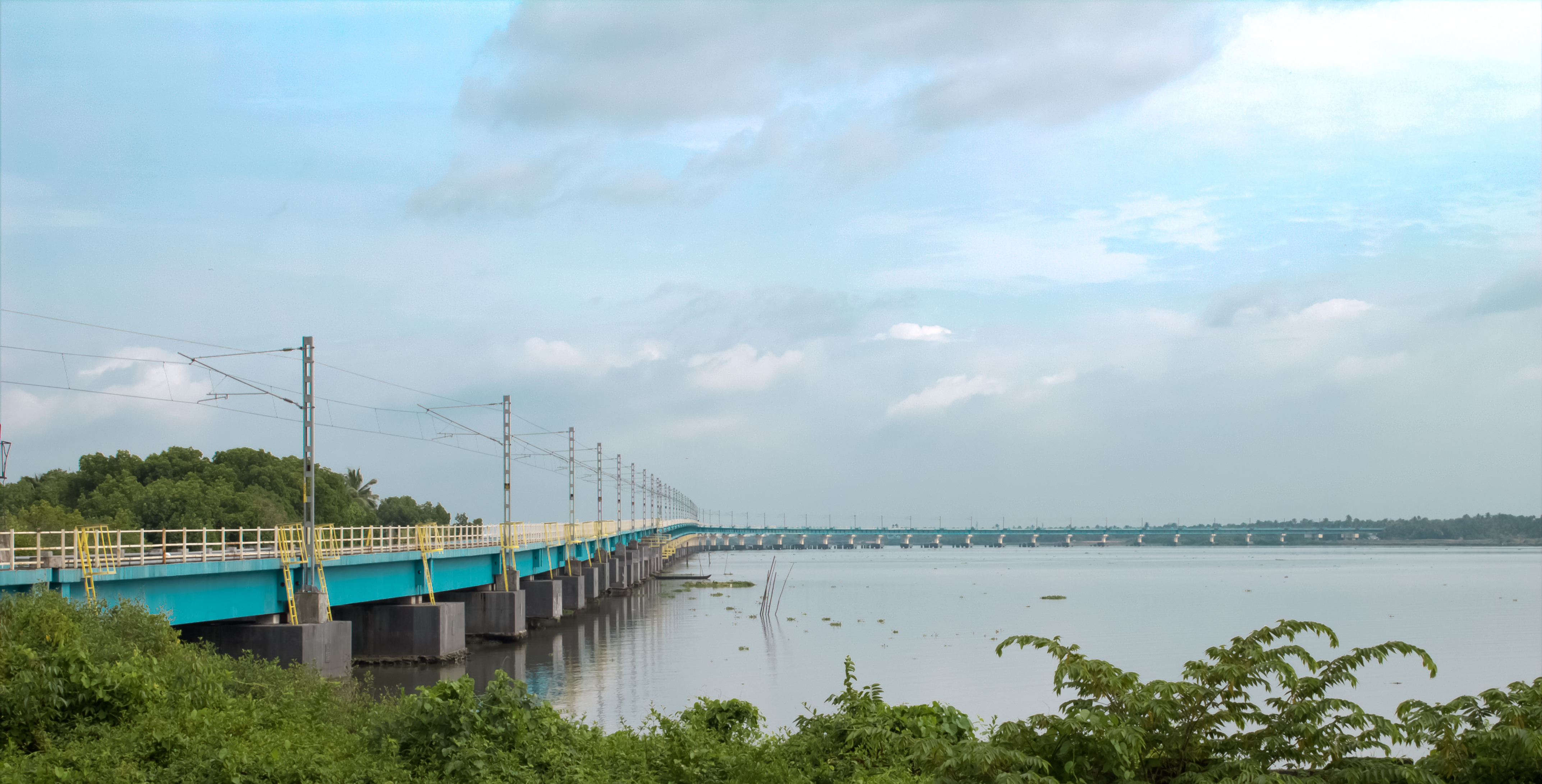 The Rail Bridge to Vallarpadam Container Transhipment Terminal. Kochi, Kerala, India